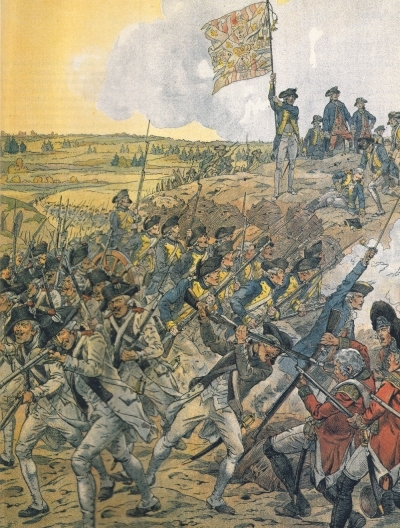 The French storming redoubt #9 during the Siege of Yorktown